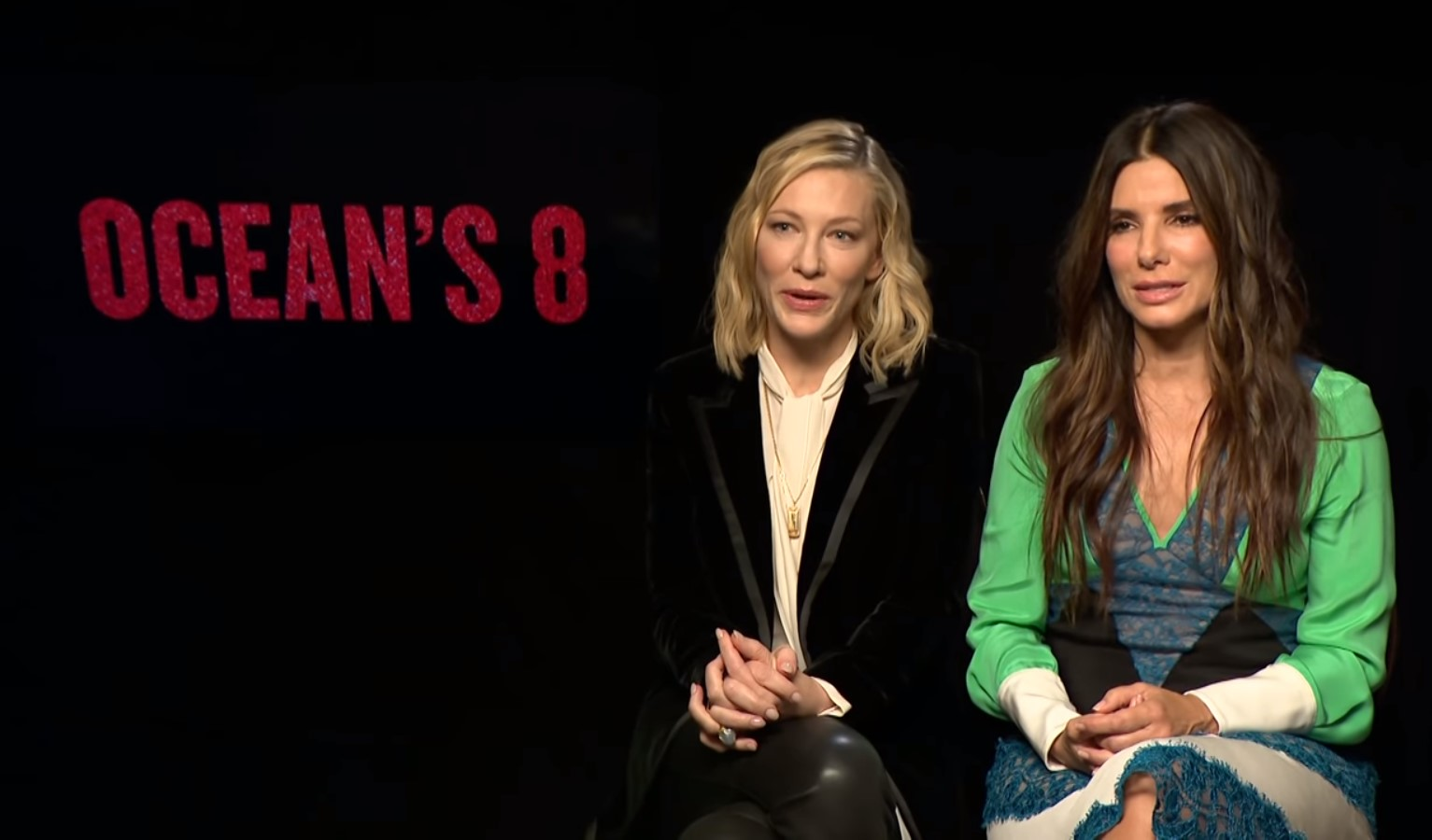 Sandra Bullock, Cate Blanchett, Sarah Paulson and Mindly Kaling reveal their tequila-fuelled on-set shenanigans, the moments that made them LOL behind the scenes